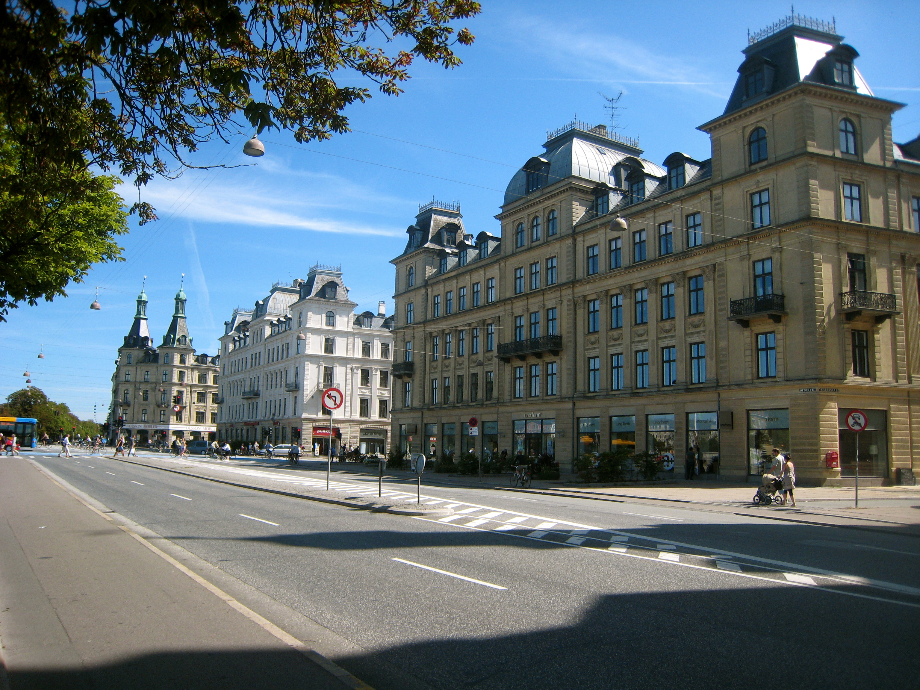 Søtorvet